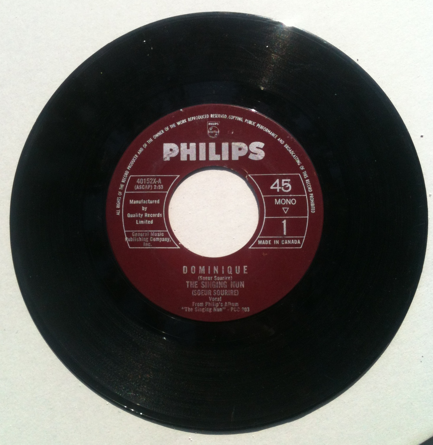 Photo of the 45 recording of Dominique